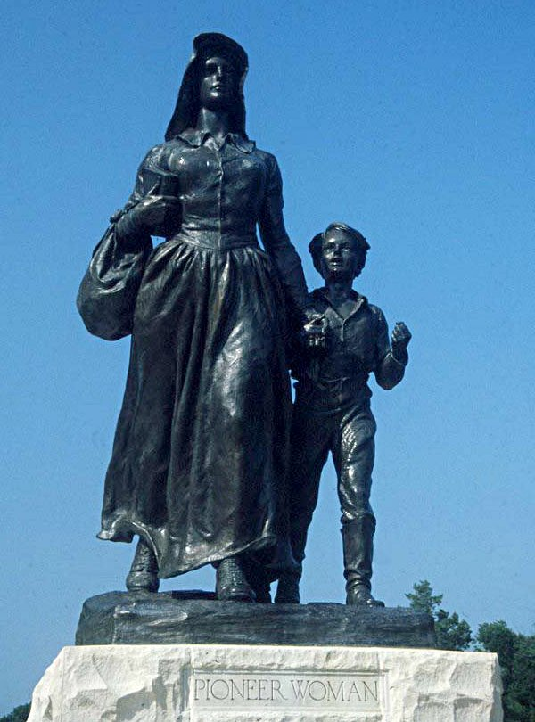 Pioneer Woman statue in Ponca City Oklahoma USA - for an article in wikipedia about the statue